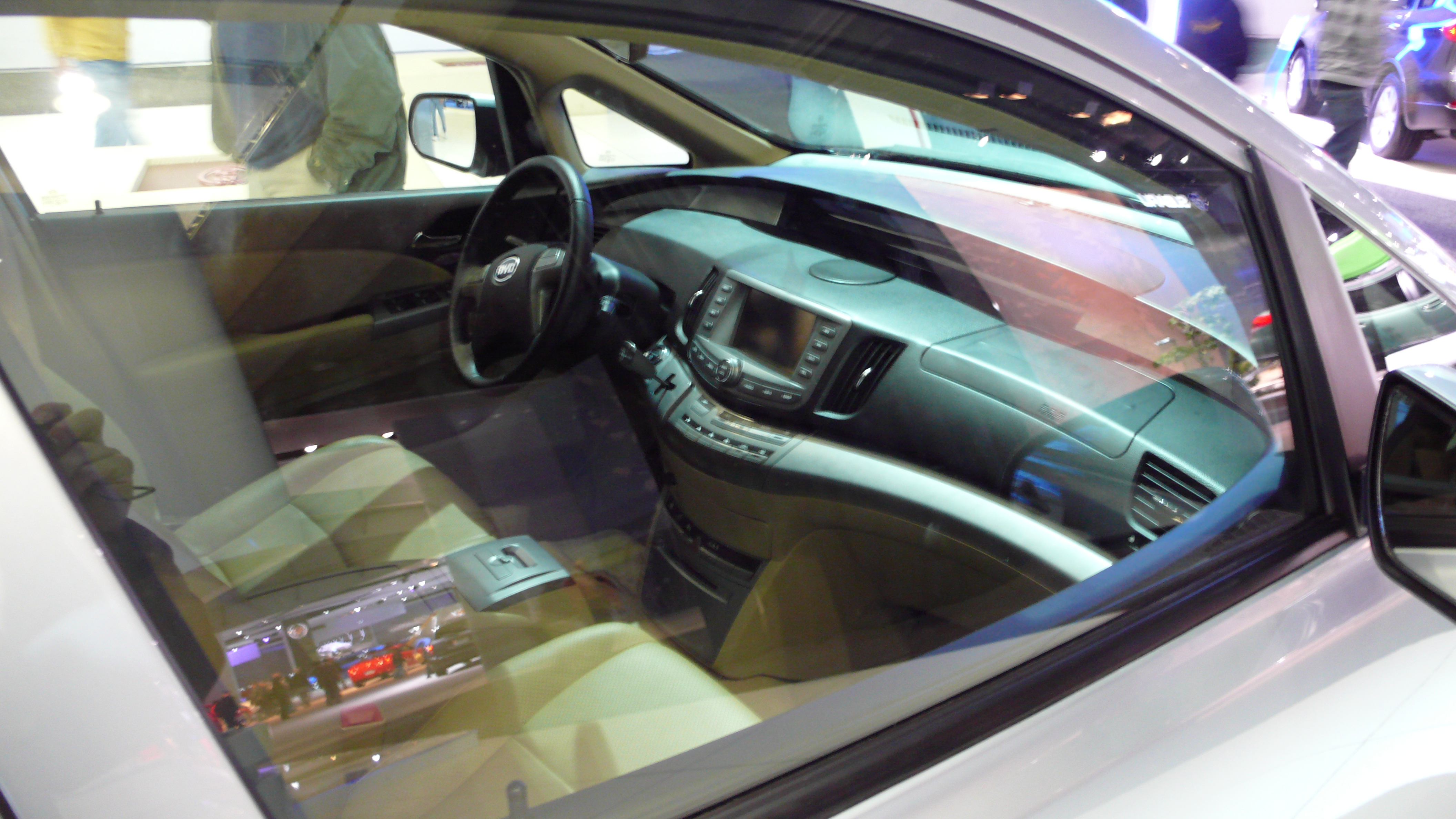 The interior of a concept BYD e6. Note that the production/trial version interior is less luxurious.